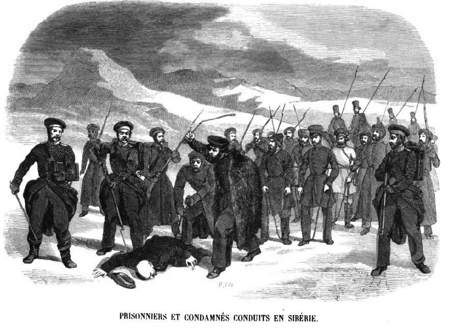 Prisoners and gendarms on the road to Siberia (Geoffroy, 1845)